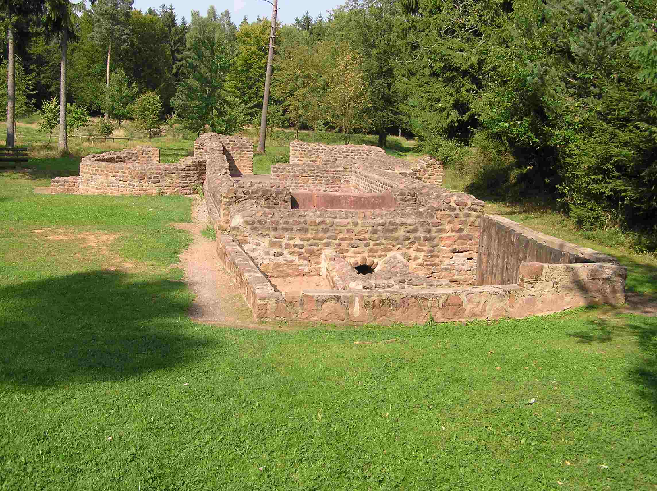 Description: Bath of Roman fort Wuerzberg ORL49 / Germany Author: Schwing, picture taken 06.09.2005